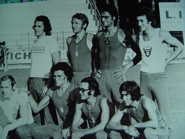 The Italian sprinters, from left: Pasqualino Abeti, Francesco Zandano, Luigi Benedetti, Pietro Mennea, Ennio Preatoni, Franco Ossola, Vincenzo Guerini e Pietro Centaro in Viareggio (1971)